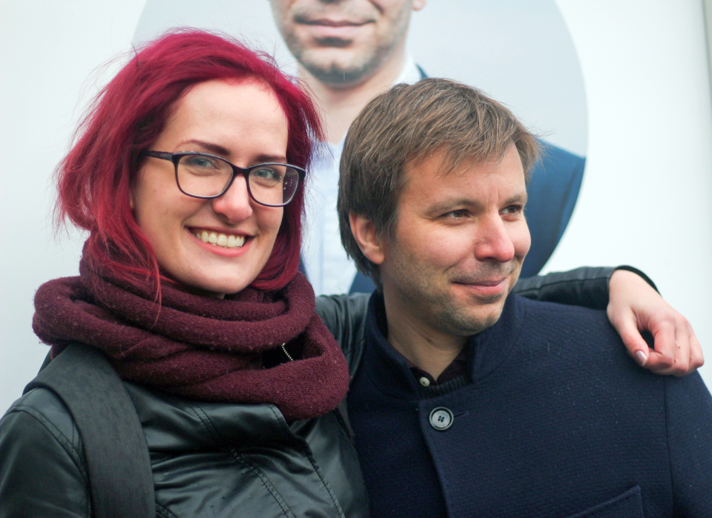 Czech politicians Marcel Kolaja (right) and Markéta Gregorová (left) on 13 April 2019